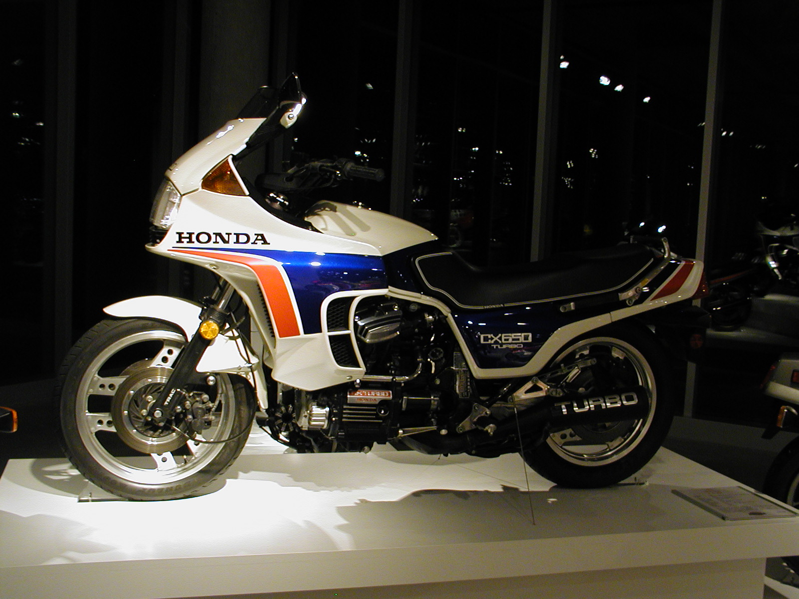 Barber Motorcycle Museum - Oct 22 2006 (83) Honda CX650Turbo